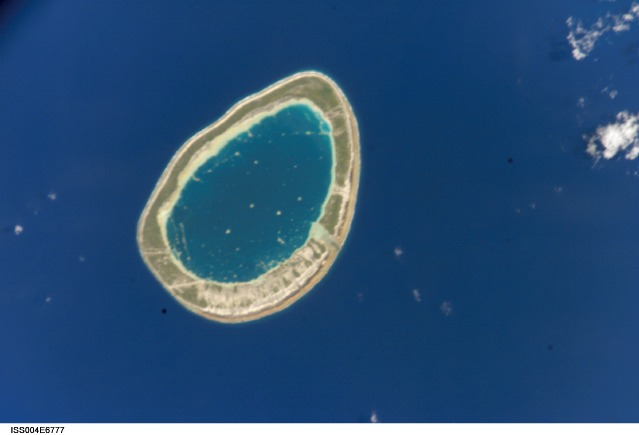 NASA Astronaut Image of Fakahina (Tuamotu Archipelago, French Polynesia) in the Pacific Ocean